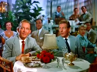 Cropped screenshot of Bing Crosby and Danny Kaye from the trailer for the film White Christmas